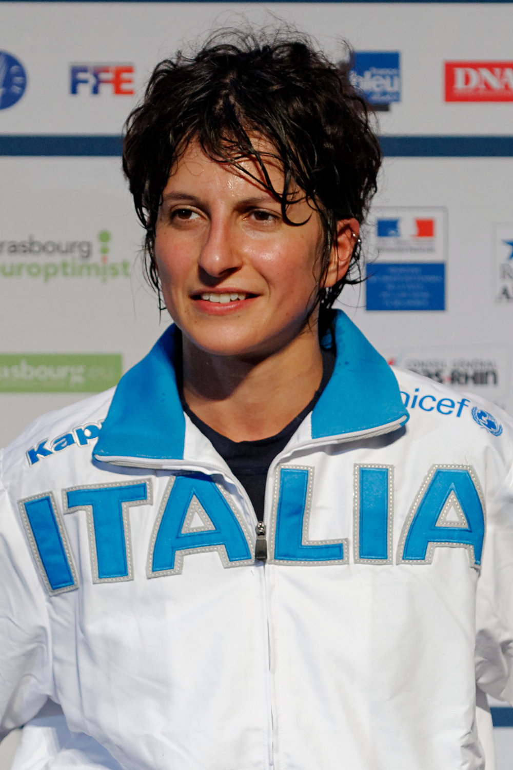 Bianca Del Carretto of Italy stands on the women's épée podium at the European Fencing Championships at Rhénus Sport in Strasbourg on 8 June 2014.